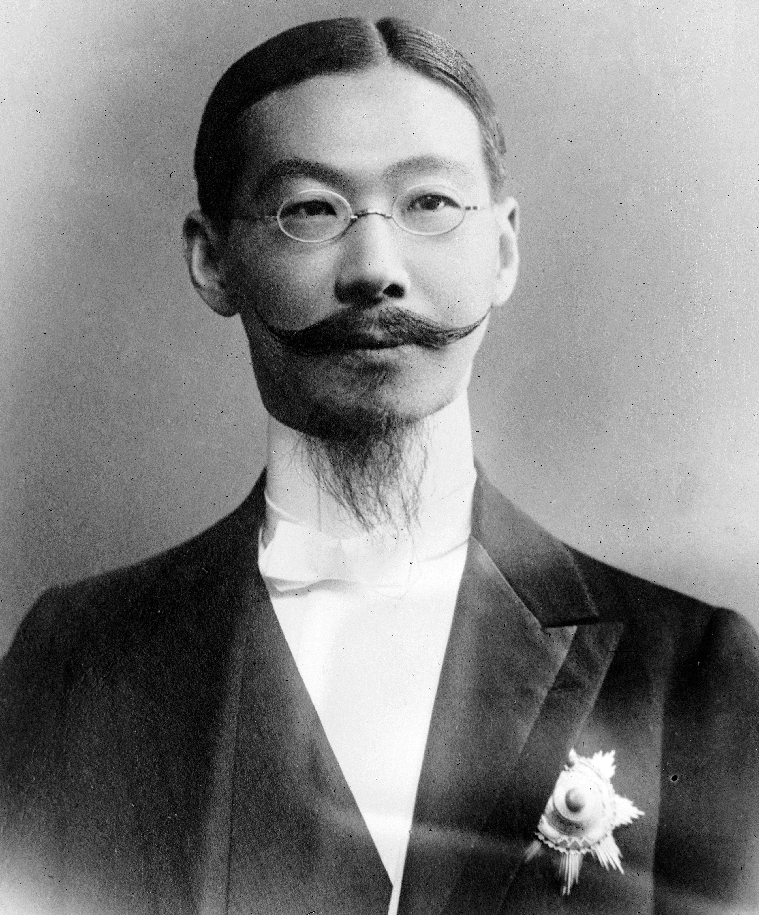 Chinese diplomat and politician Lou Tseng-Tsiang (1871-1949), later a Roman Catholic monk